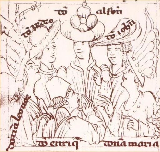 The Infantes of Aragon ('Los infantes de Aragón') of the 15th C., detail from Genealogias de los Reyes de España, c.1460, Madrid: Biblioteca de Palacio (MS II-3009, fol. 191)